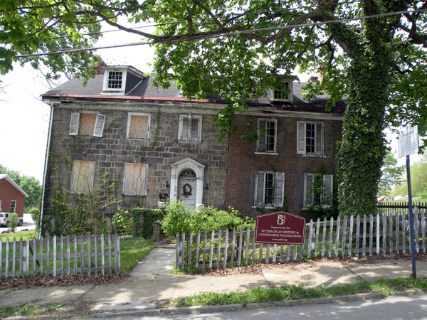 Picture of the Roberts House located at 225 North Central Avenue in Canonsburg, Pennsylvania, on May 1, 2010. The house was built at some point between 1802 and 1808, and is listed on the National Register of Historic Places. Architectural style: Georgian, Other. The sign on the fence in front of the house says, "Supported by the Pittsburgh History and Landmarks Foundation The other sign near the front says the following: "Roberts House - John Watson, Jefferson College's first president, died in a log house on this lot in 1802. John Roberts ran a store here (from 1808 to 1815), and this house was the home of William Smith, Professor of Greek. The house was built in sections over many years. Greater Canonsburg Heritage Society"